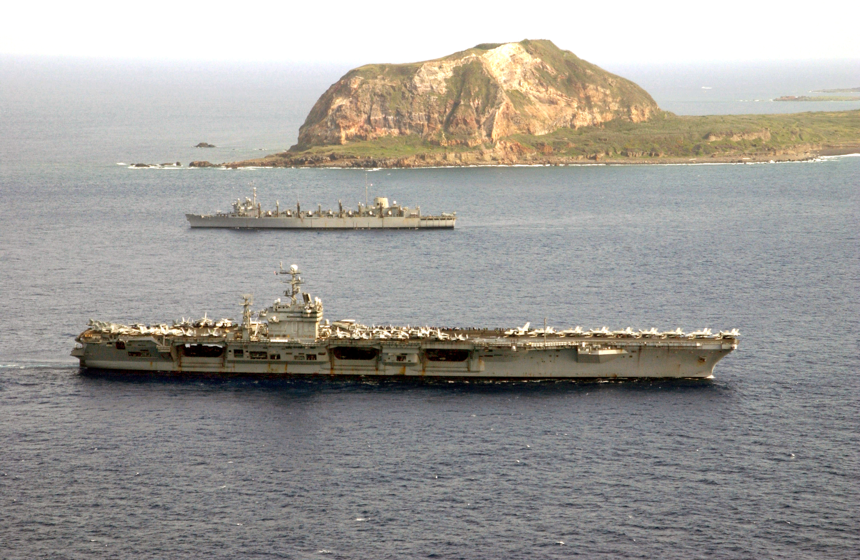 Pacific Ocean (May 17, 2003) - The nuclear powered aircraft carrier USS Carl Vinson (CVN 70) and the fast combat support ship USS Sacramento (AOE 1) pass Mount Suribachi on the island of Iwo Jima. During World War II this island was the site of a significant naval amphibious assault where on Feb. 19, 1945 more than 30,000 Marines and Sailors went ashore facing heavily fortified Japanese forces. American casualties included more than 6000 combat deaths and over 26,000 wounded.